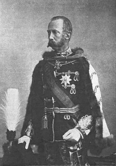 Portrait of Archduke Ludwig Viktor of Austria (1842-1919)